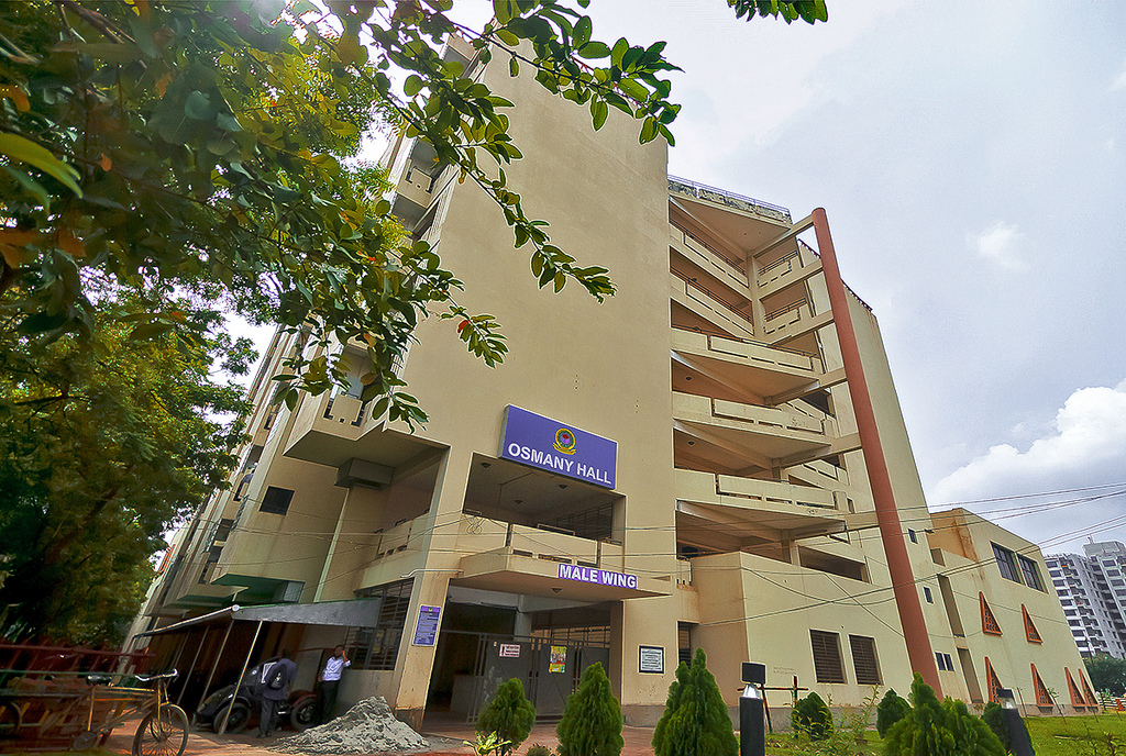 Osmany Hall, MIST